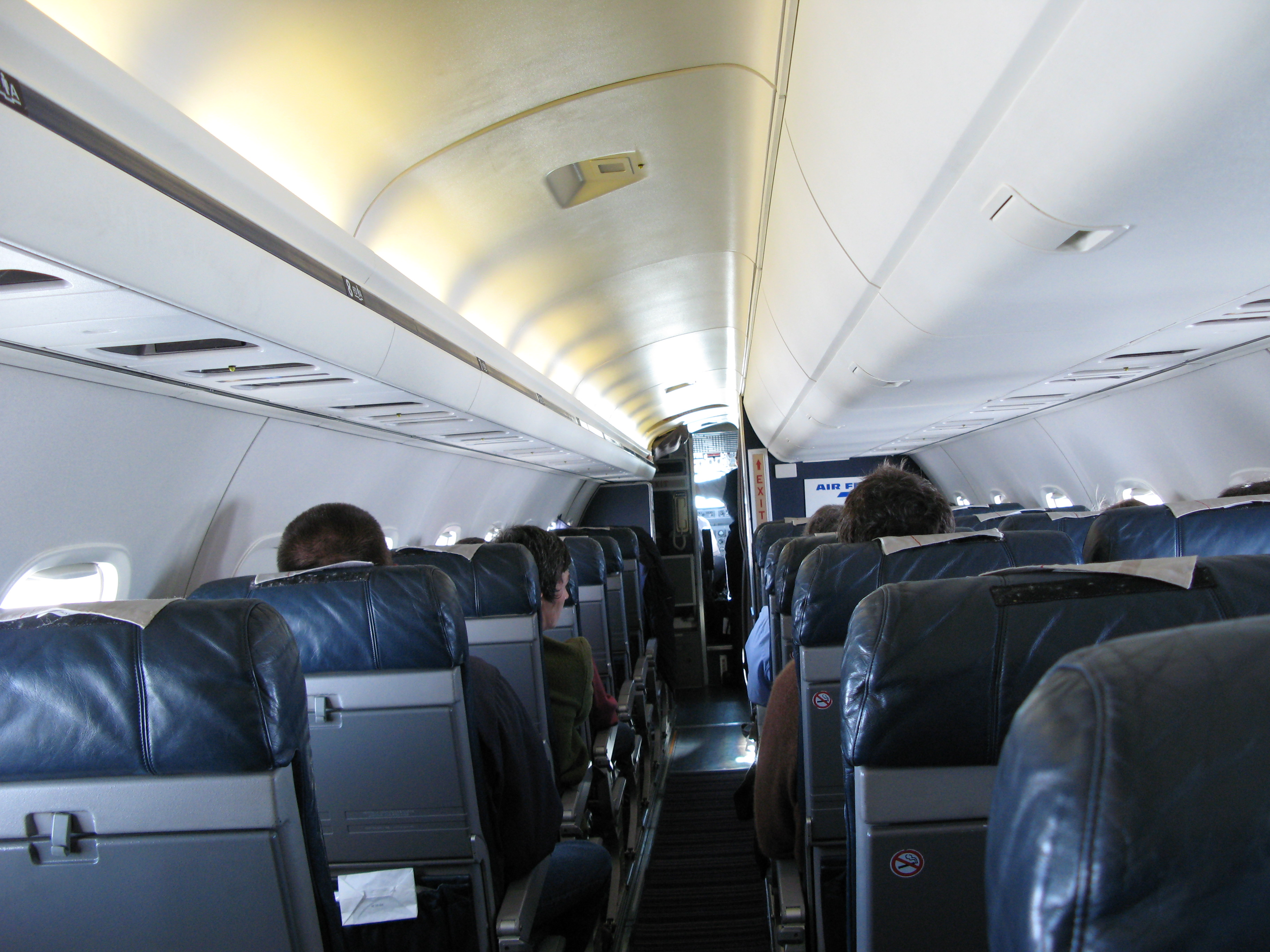 Flight operated by Régional. When I saw the reduced dimensions of the cabin, I understood why I could not take my carry-on baggage with me.